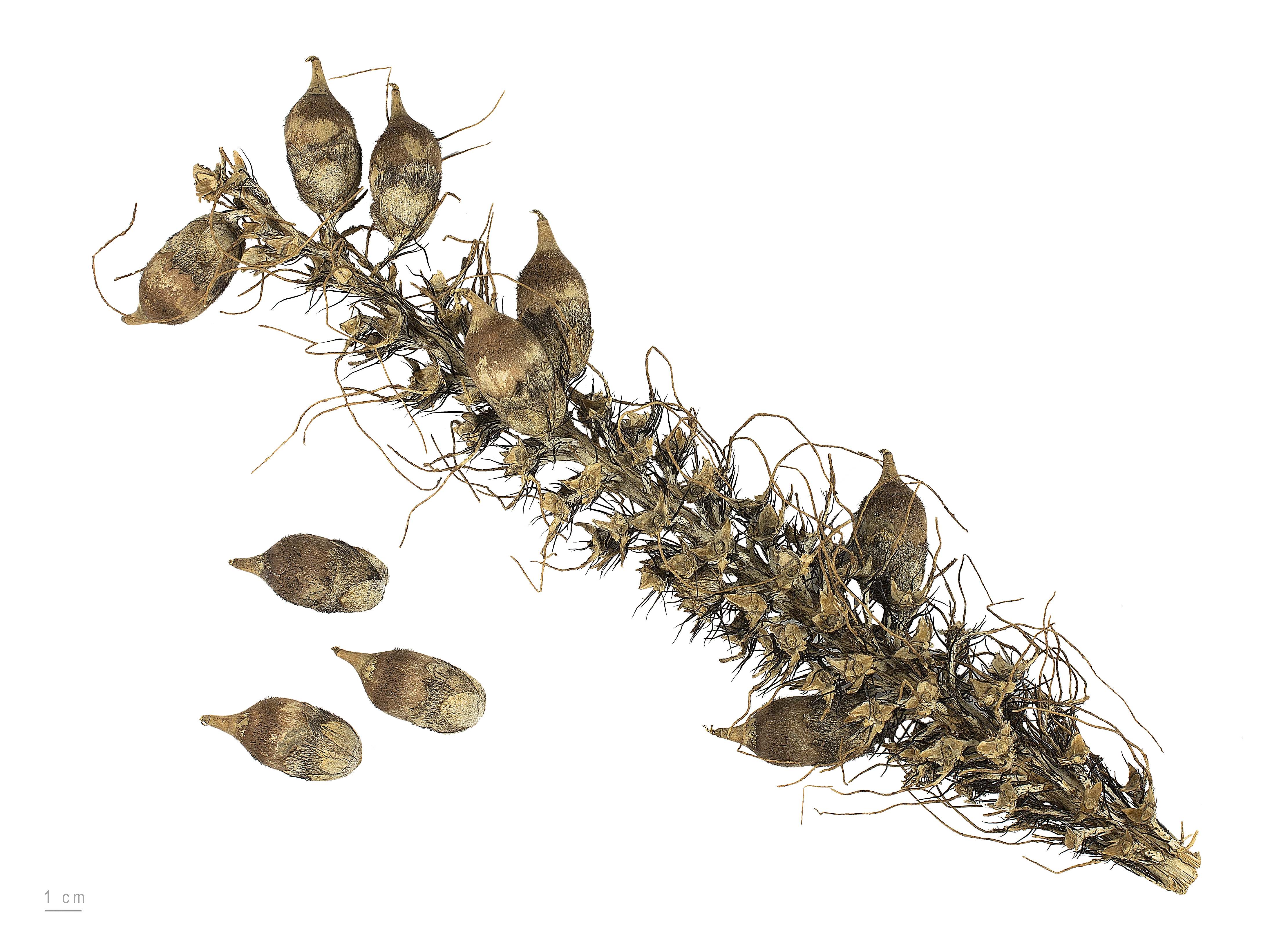 ‘’Astrocaryum paramaca’’, früchte